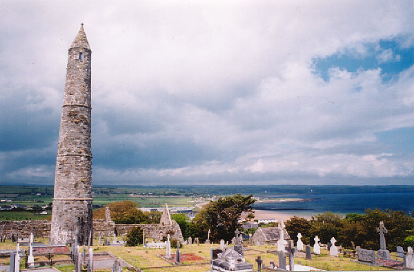 Round tower in Ardmore, County Waterford, Ireland Photo by Michael Rogers, 2002, who retains copyright and releases the image under the GFDL.